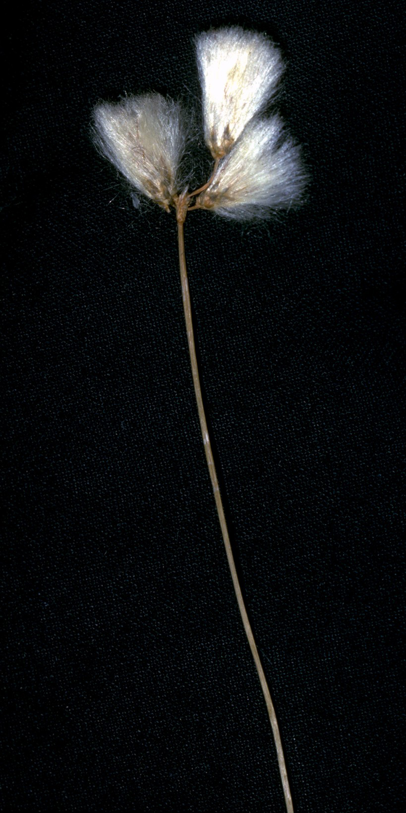 Eriophorum gracile W.D.J. Koch - slender cottongrass